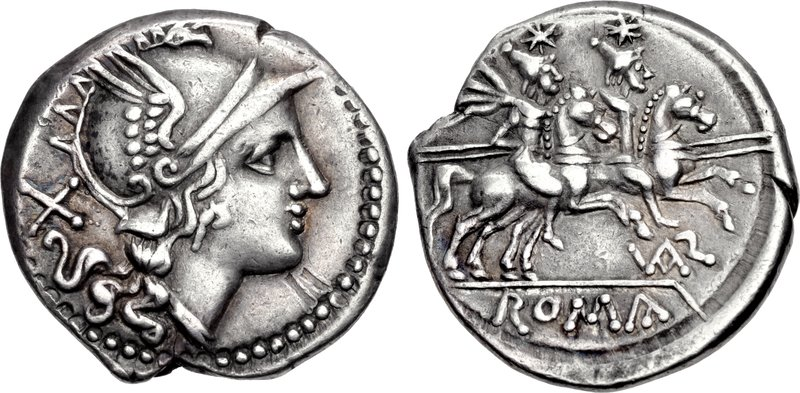 Roman Republic A. Terentius Varro. 206-200 BC. AR Denarius (19mm, 3.69 g, 9h). Uncertain mint. Helmeted head of Roma right; X (mark of value) behind Dioscuri on horseback riding right.